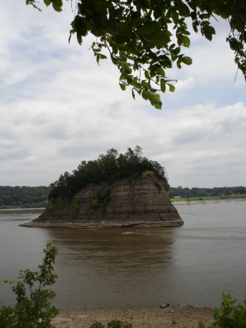 Tower Rock island monument, view from Perry County, Missouri, shore.